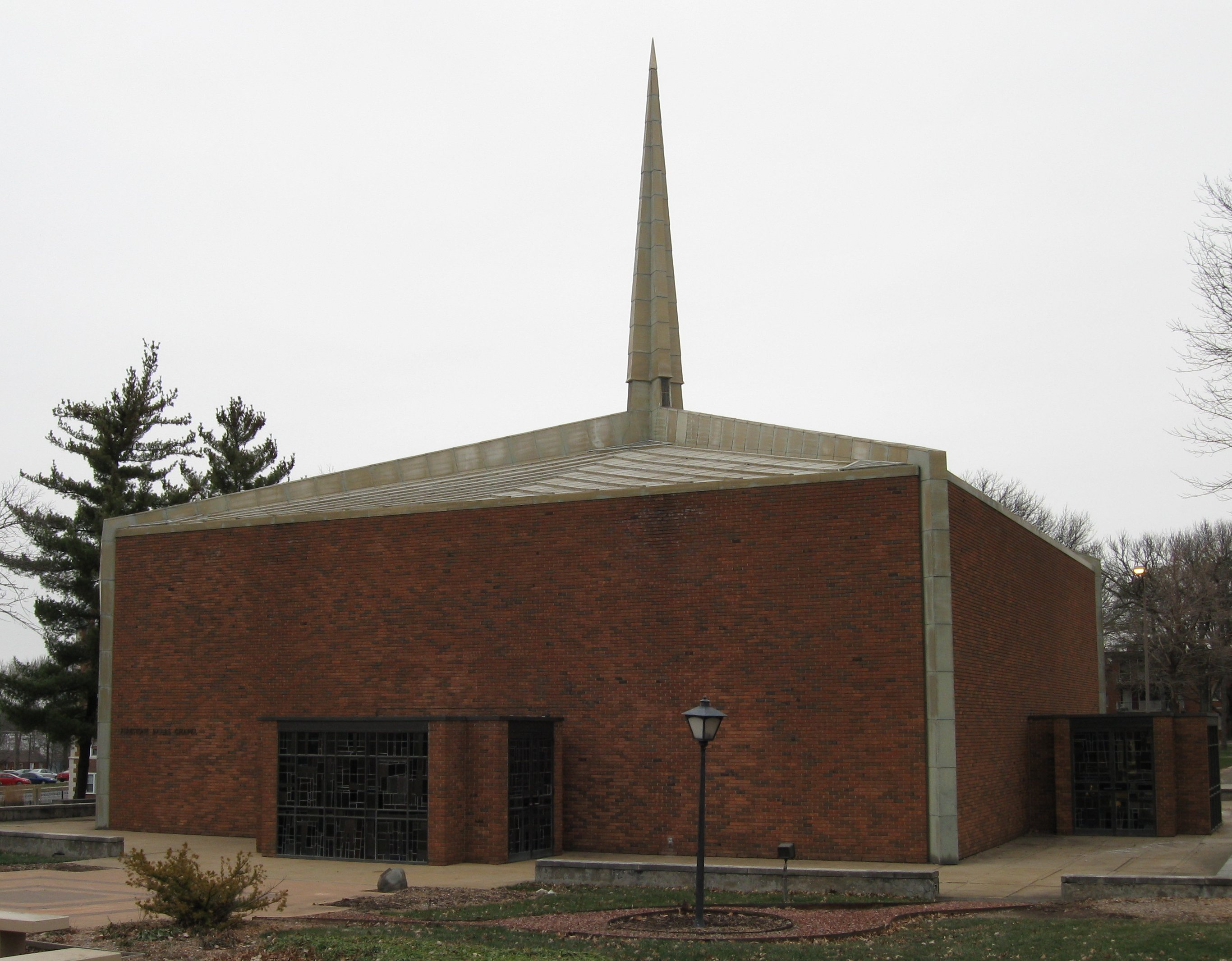 Photo of the Eero Saarinen designed Firestone Baars Chapel on the Stephens College campus in Columbia, Missouri.